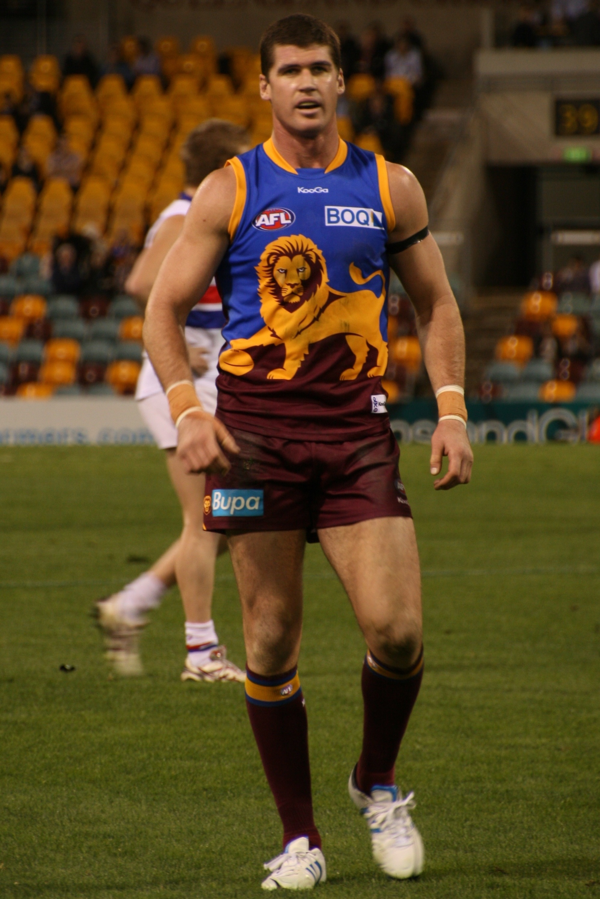 Jonathan Brown at the game vs the Western Bulldogs in Round 23, 2012.